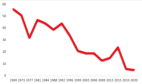 A chart of the seats held by the Israeli Labor party over the years, showcasing the party's decline.